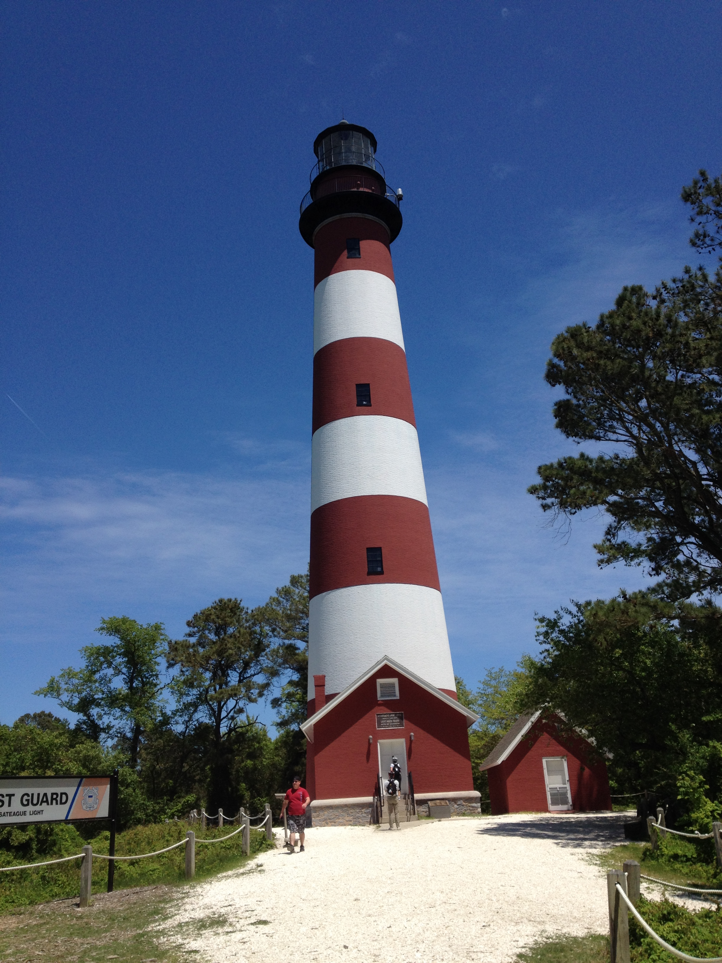 The Assateague Light on Assateague Island within the Chincoteague National Wildlife Refuge in Virginia